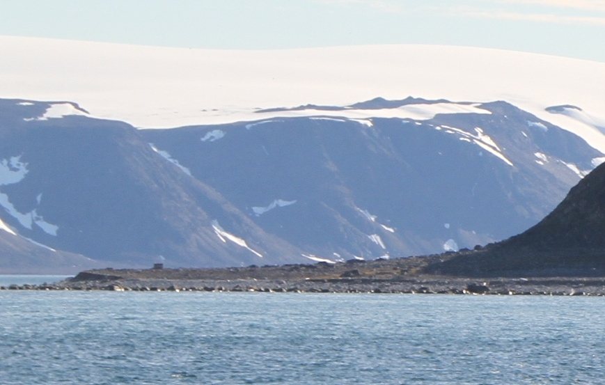 Flathuken seen from the northwestern coastof Spitsbergen, seen from the islands Nordvestøyane. Albert I Land, Spitsbergen, Svalbard (Norway).